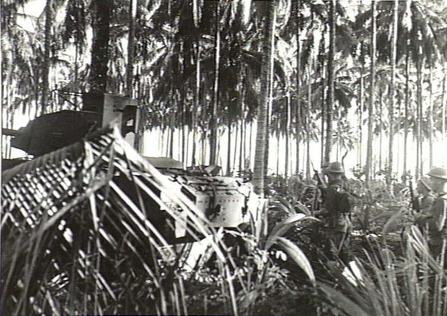 1942-12-28. PAPUA, GIROPA POINT AREA. AUSTRALIAN TANK AND INFANTRYMEN IN ACTION BEFORE THE FINAL ASSAULT ON BUNA. (NEGATIVE BY G. SILK.)